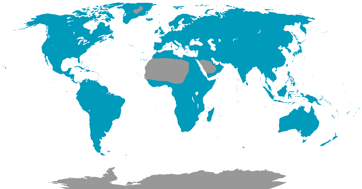 Map showing the range of the Waterfowl.